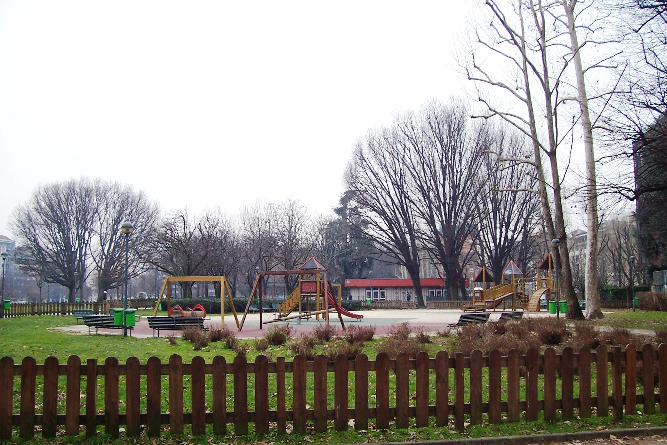 Milano, Pallavicino park, the plaing court